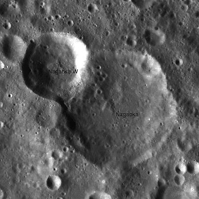 Nagaoka lunar crater - LROC image